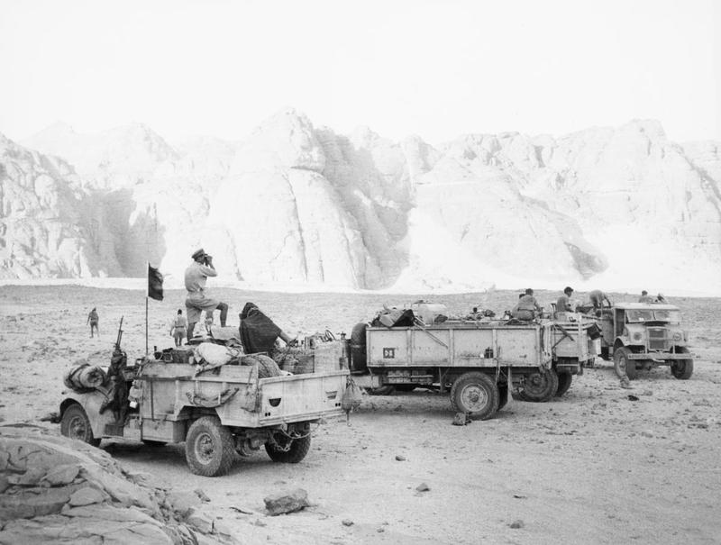 Western Desert- Operation Agreement, Raid by Commando Force B on Tobruk in September 1942. Launched Across the Desert From Cairo, the Raid Failed Trucks halted at the massive rock outcrop of Gilf Kebir. The officer with binoculars is most probably Major David Lloyd Owen.